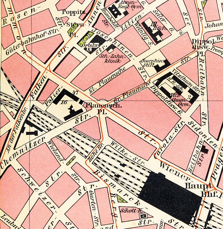 Dresden in present time (town center, around 1930)